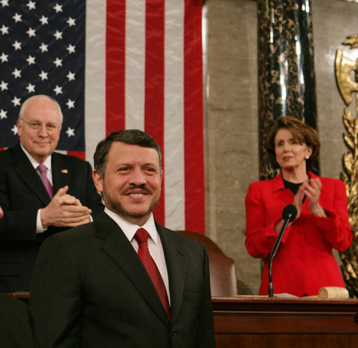 US Vice President Dick Cheney and House Speaker Nancy Pelosi applaud King Abdullah II of Jordan as he prepares to address a Joint Meeting of Congress, Tuesday, March 7, 2007 at the U.S. Capitol.